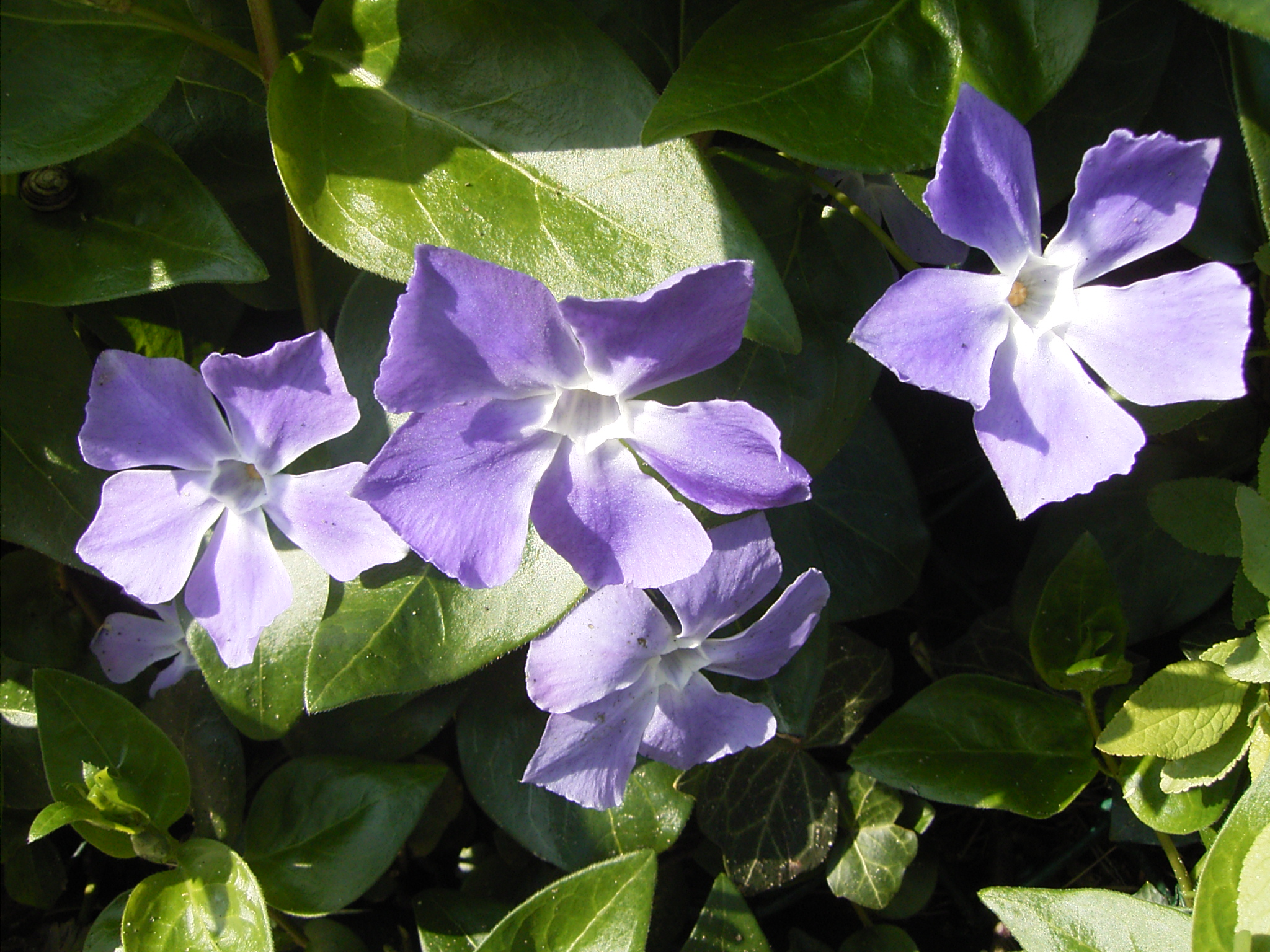 Deze foto toont debloemen van de Grote maagdenpalm. Ik nam deze foto op 23 april 2005 in onze tuin. This photo shows the flowersof Vinca major; I took this photo on april 23, 2005 in our garden.